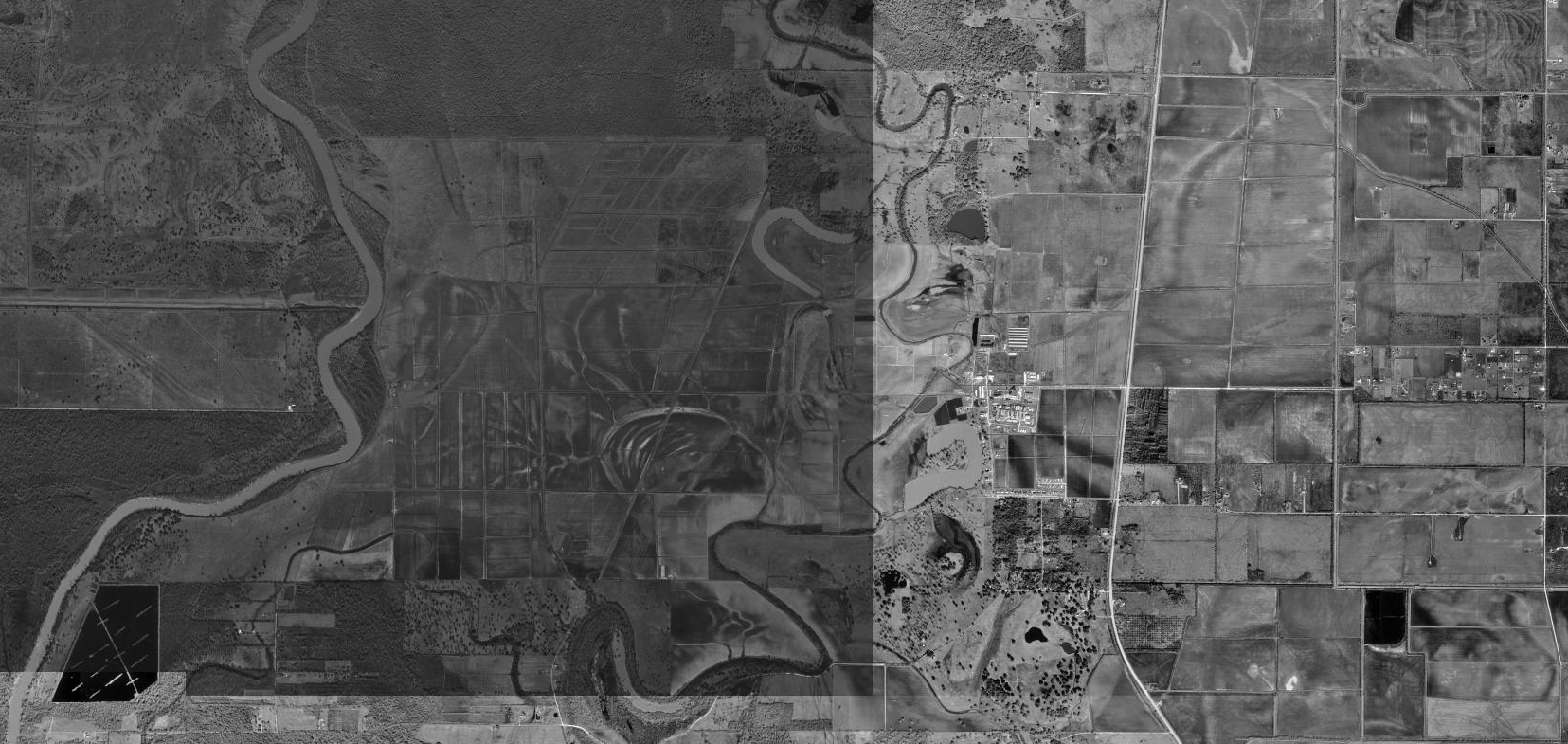 USGS orthophoto of the Darrington Unit in Brazoria County, Texas